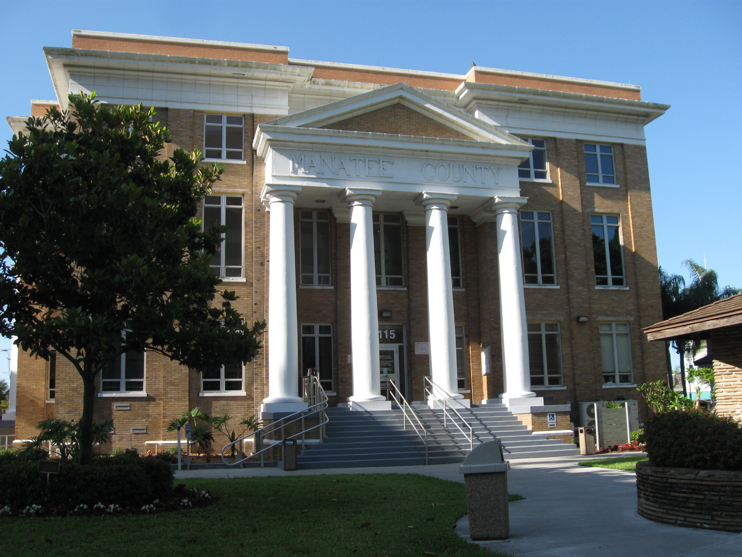 Courthouse, Manatee County, Bradenton, FL